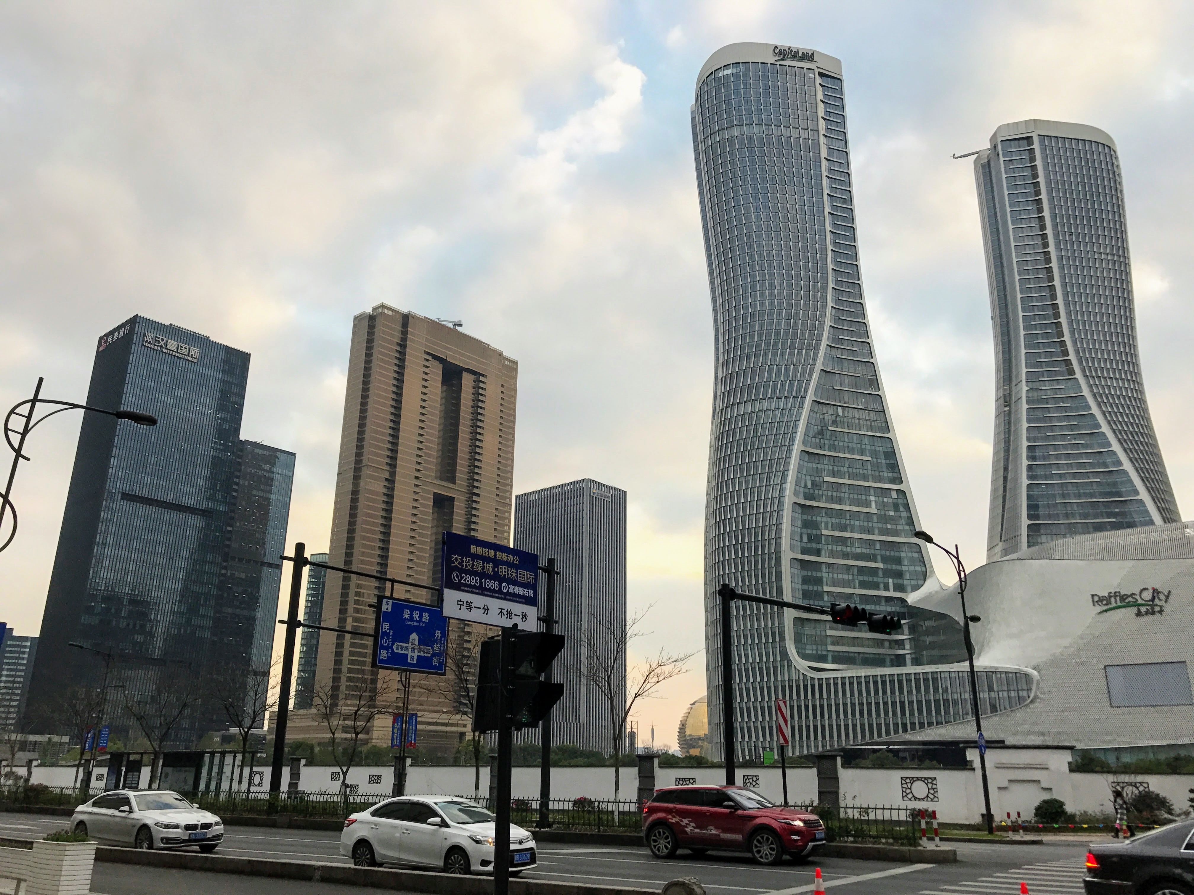 Raffles City and neighboring buildings